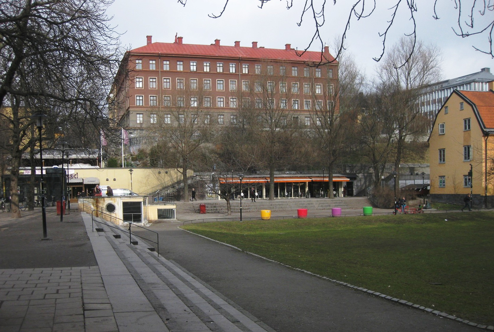 Tenement house called "Söderslottet" on the hill by the park Björns Trädgård in Stockholm. Built 1882-83.